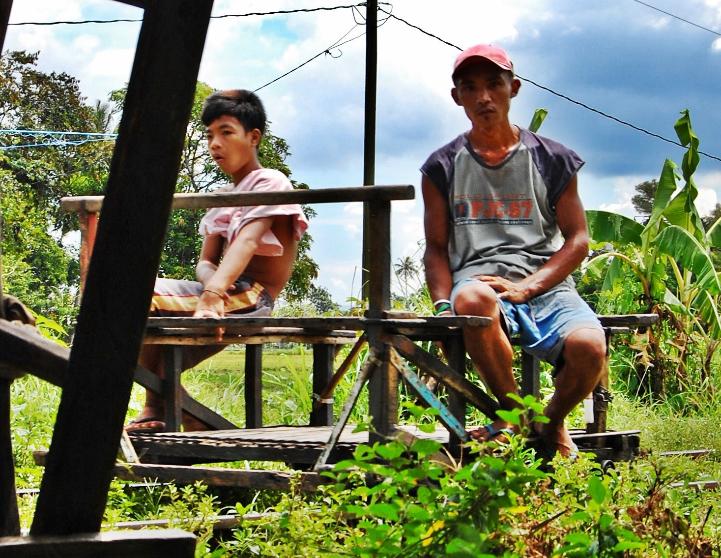 Lucena. Bamboo trolley of Philippines.